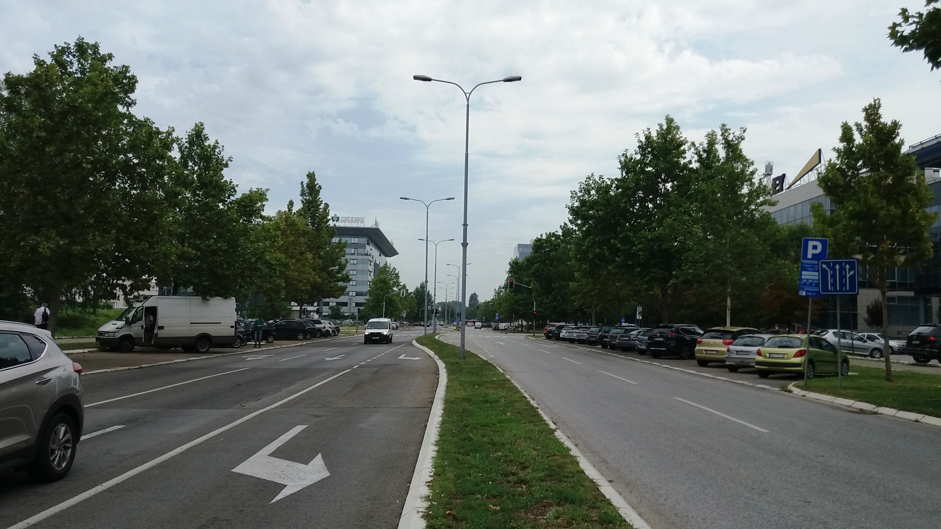 Antifašističke borbe Street, New Belgrade